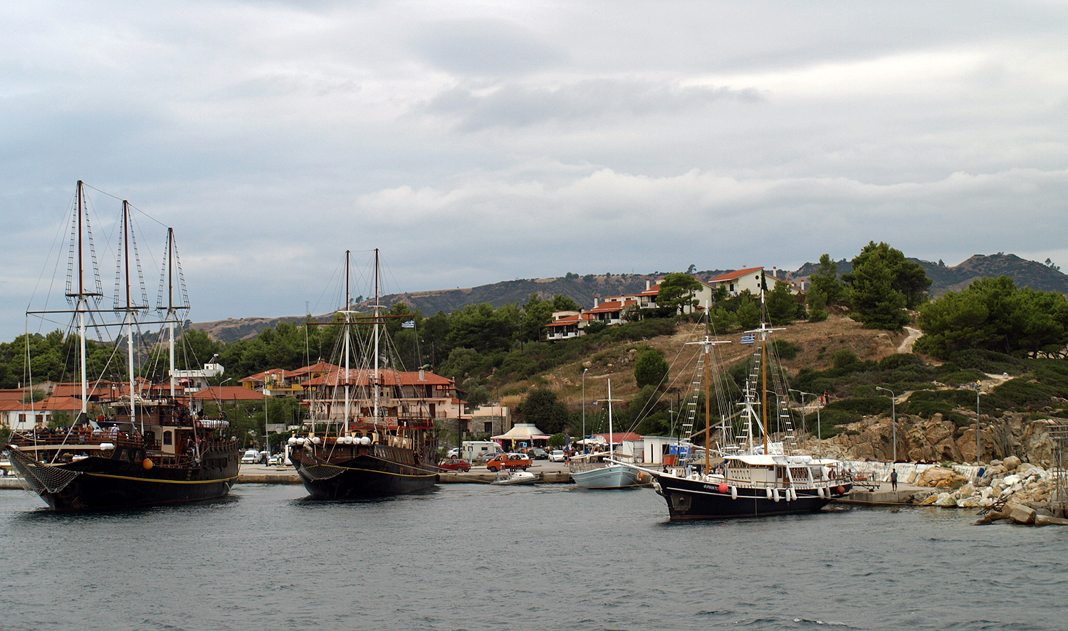 Ormos Panagias harbour of Ag.Nicolaos, Sithonia, Halkidiki Greece